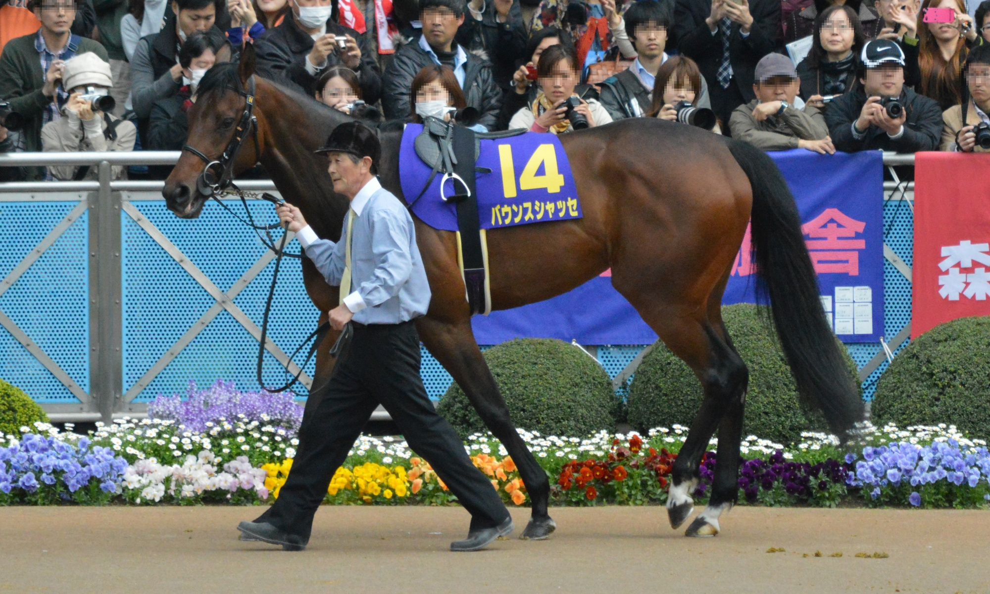 Japanese race horse Bounce Shasse at Nakayama racecourse. Nakayama (JPN) 20 Apr 2014Satsuki Sho (Japanese 2000 Guineas) (Grade 1) (3yo Colts & Fillies) (Turf) 1m2f Firm RankHorse NameOddsAgeWgtTrainerJockey1stIsla Bonita (JPN)41/10C39-0Hironori KuritaMasayoshi Ebina2ndTo The World (JPN)5/2FC39-0Yasutoshi IkeeYuga Kawada3rdWin Full Bloom (JPN)239/10C39-0Hiroshi MiyamotoDaichi Shibata4th-10th/omission11thBounce Shasse (JPN)52/1F38-9Kazuo FujisawaHiroshi Kitamura